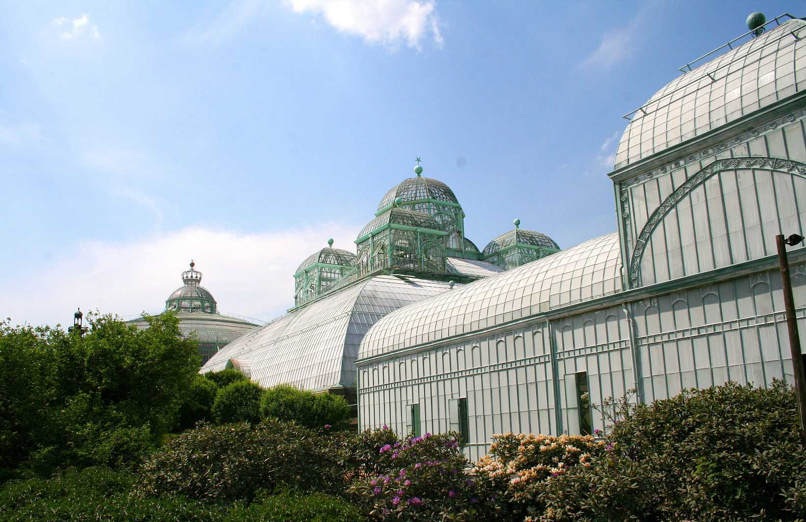 Laken (Belgium), the Royal Greenhouses of Balat (1874-1890).